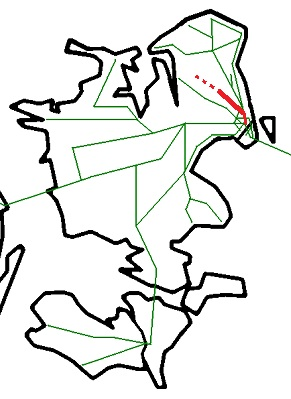 Map of railways on Zealand (Sjælland) in Denmark with the state railway Hareskovbanen (former Slangerupbanen) between Copenhagen and Farum in red. The dotted line is the part between Farum and Slangerup which were closed in 1954.